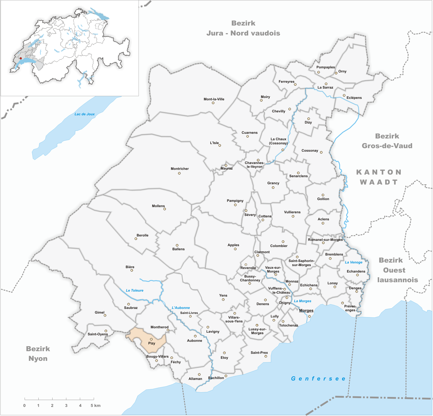 Municipality Pizy